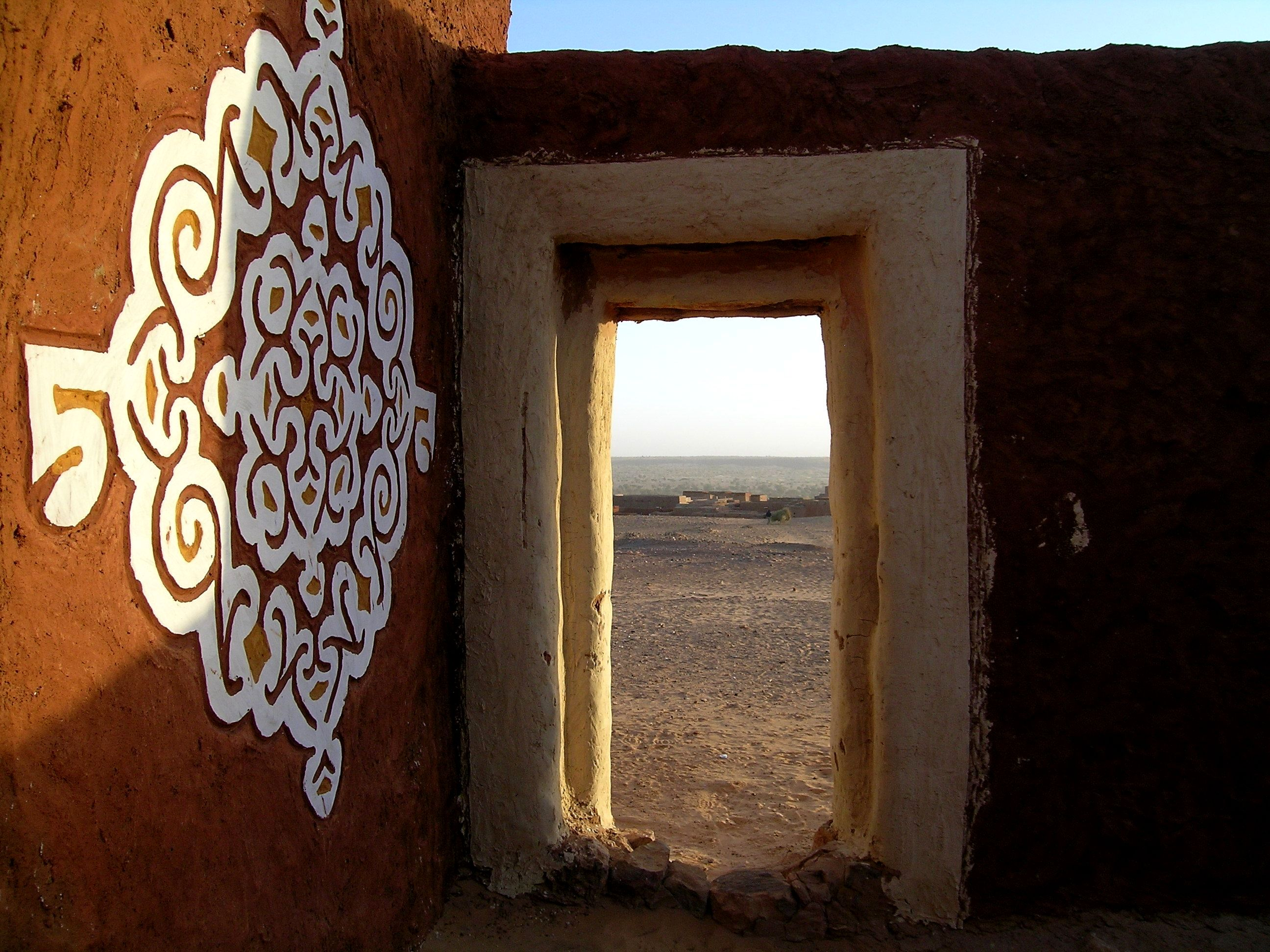 Typical architecture of Oualata, Mauritania